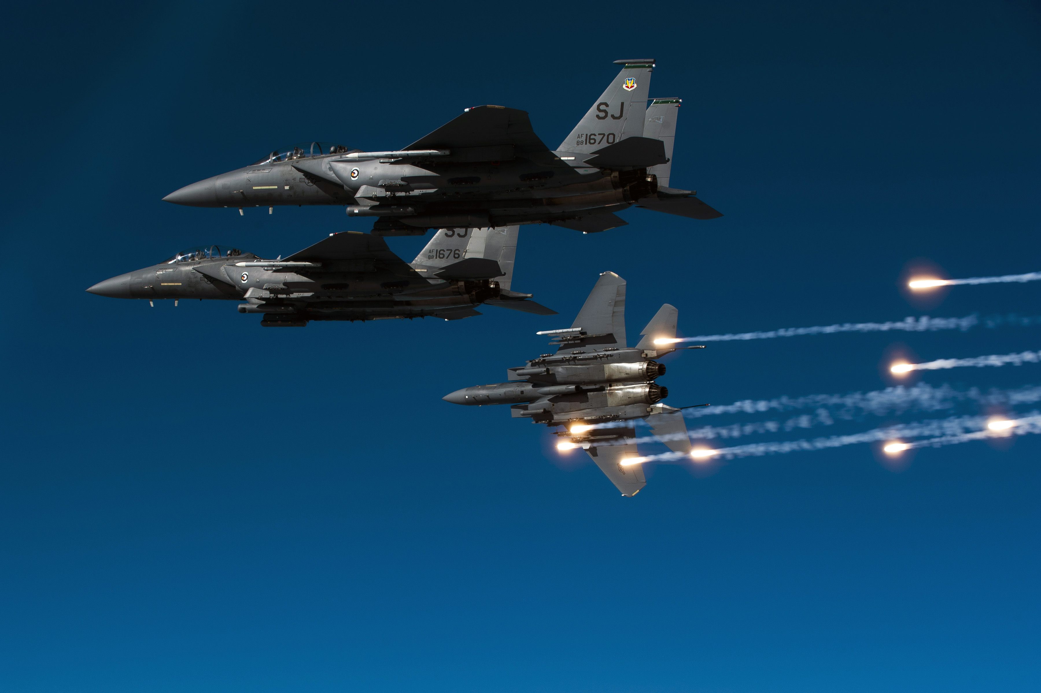 A U.S. Air Force F-15E Strike Eagle aircraft from the 335th Fighter Squadron releases flares during a local training mission over North Carolina, Dec. 17, 2010. (U.S. Air Force photo by Staff Sgt. Michael B. Keller)